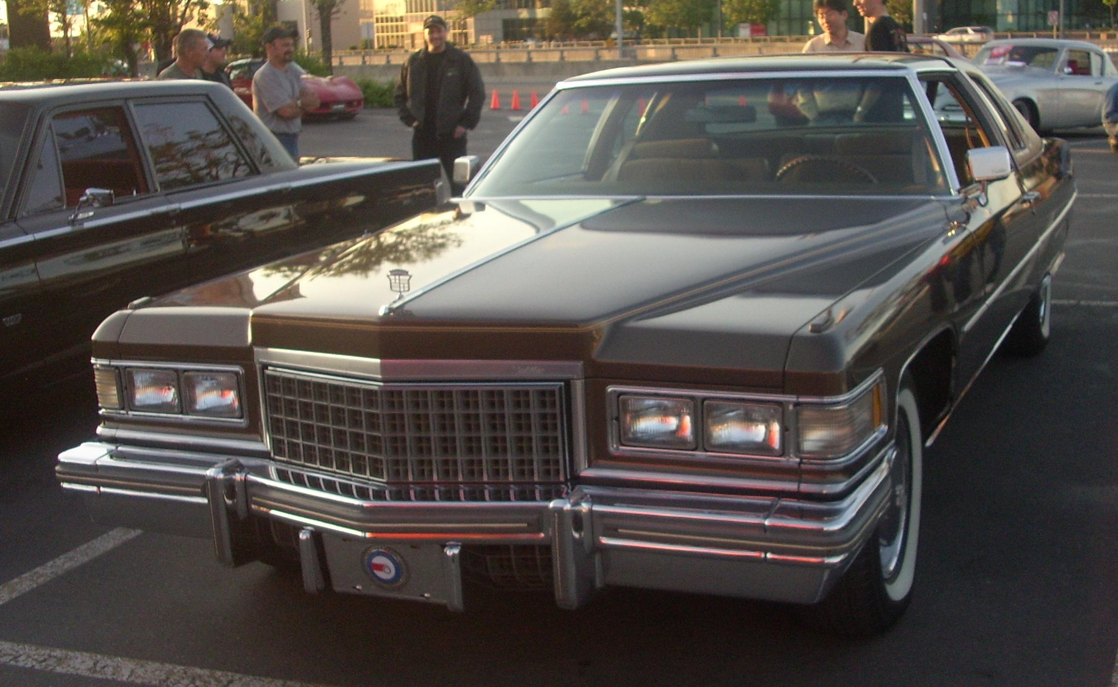 1976 Cadillac Coupe de Ville photographed in Montreal, Quebec, Canada at Gibeau Orange Julep.